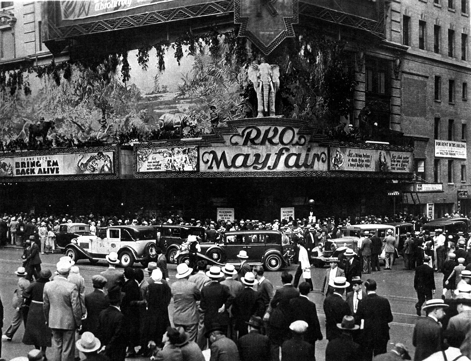 New York premiere of Bring 'Em Back Alive (1932), which occurred prior to the film's general release. This image is from Frank Buck's autobiography All In A Lifetime (1941), which is now public domain. The copyright was never renewed because the publisher, Robert M. McBride, declared bankruptcy in 1948, and the book went out of print.